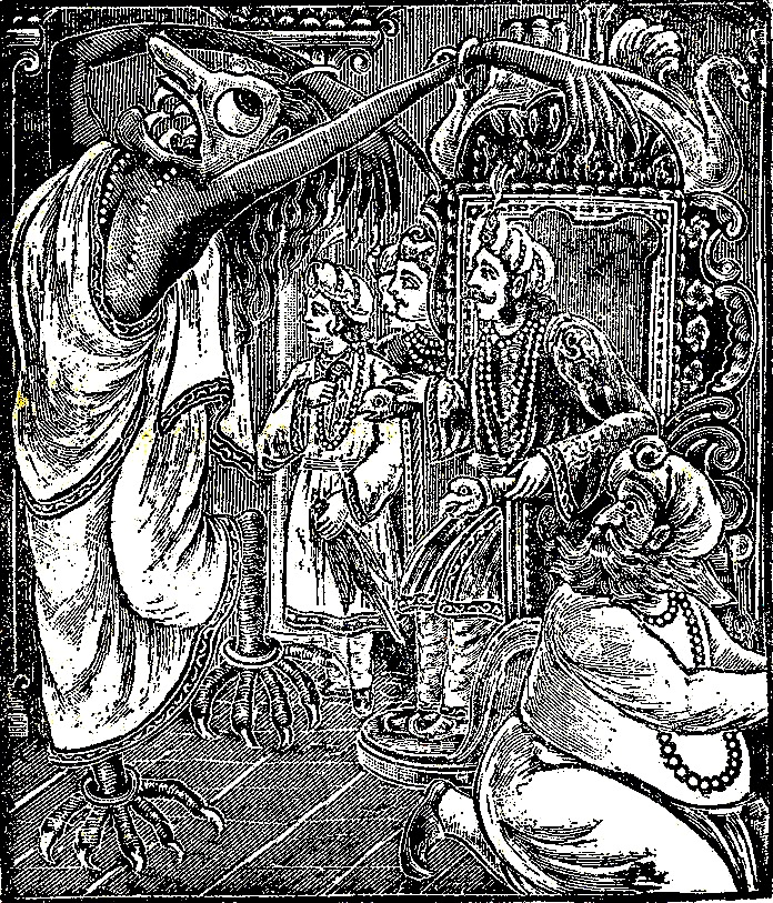 Depiction from Thakurmar Jhuli (1907) by Dakkhinaranjan Mitra Majumder.